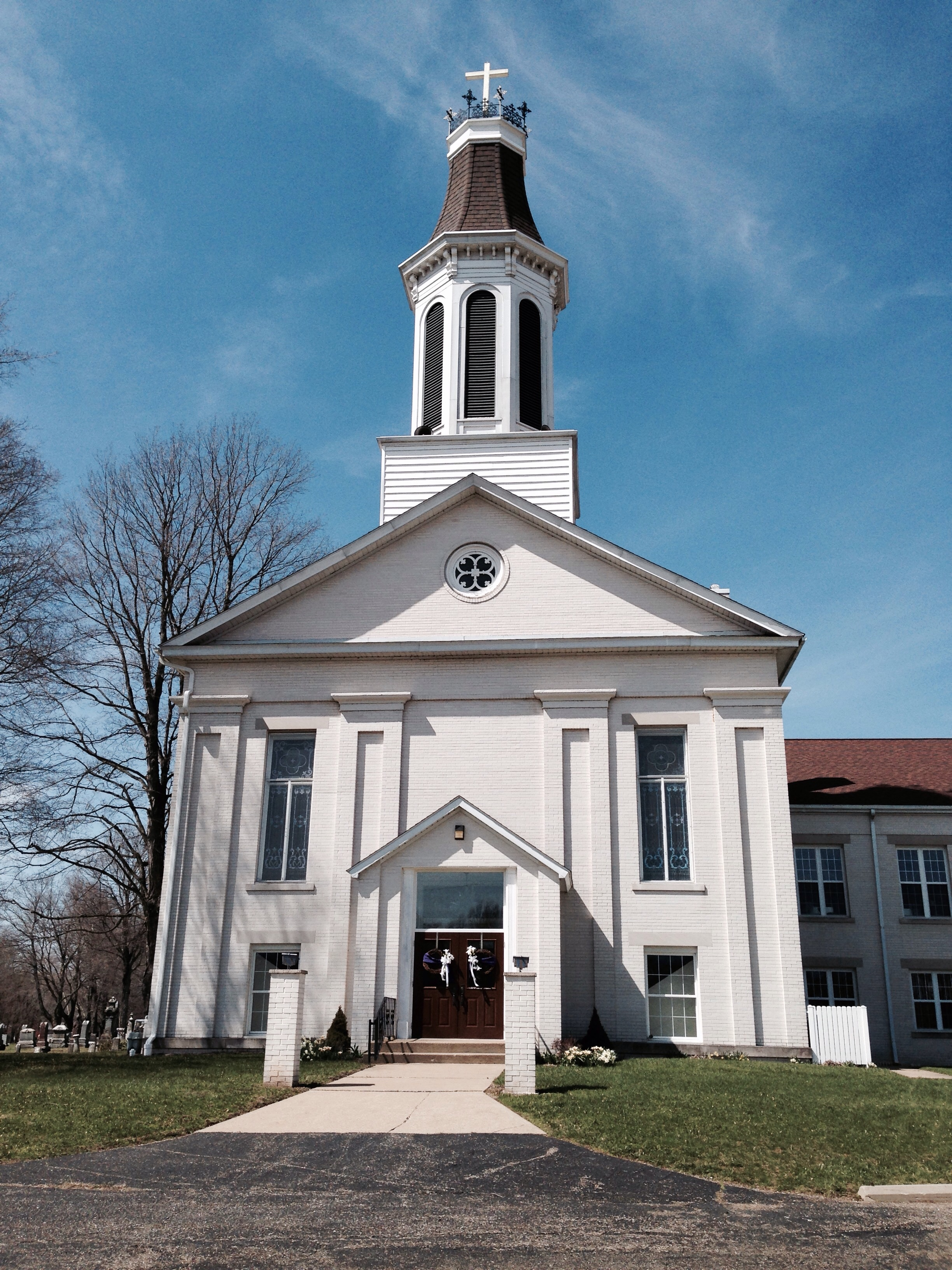 Sharon Moravian Church in Tuscarawas, Ohio. Built in 1857